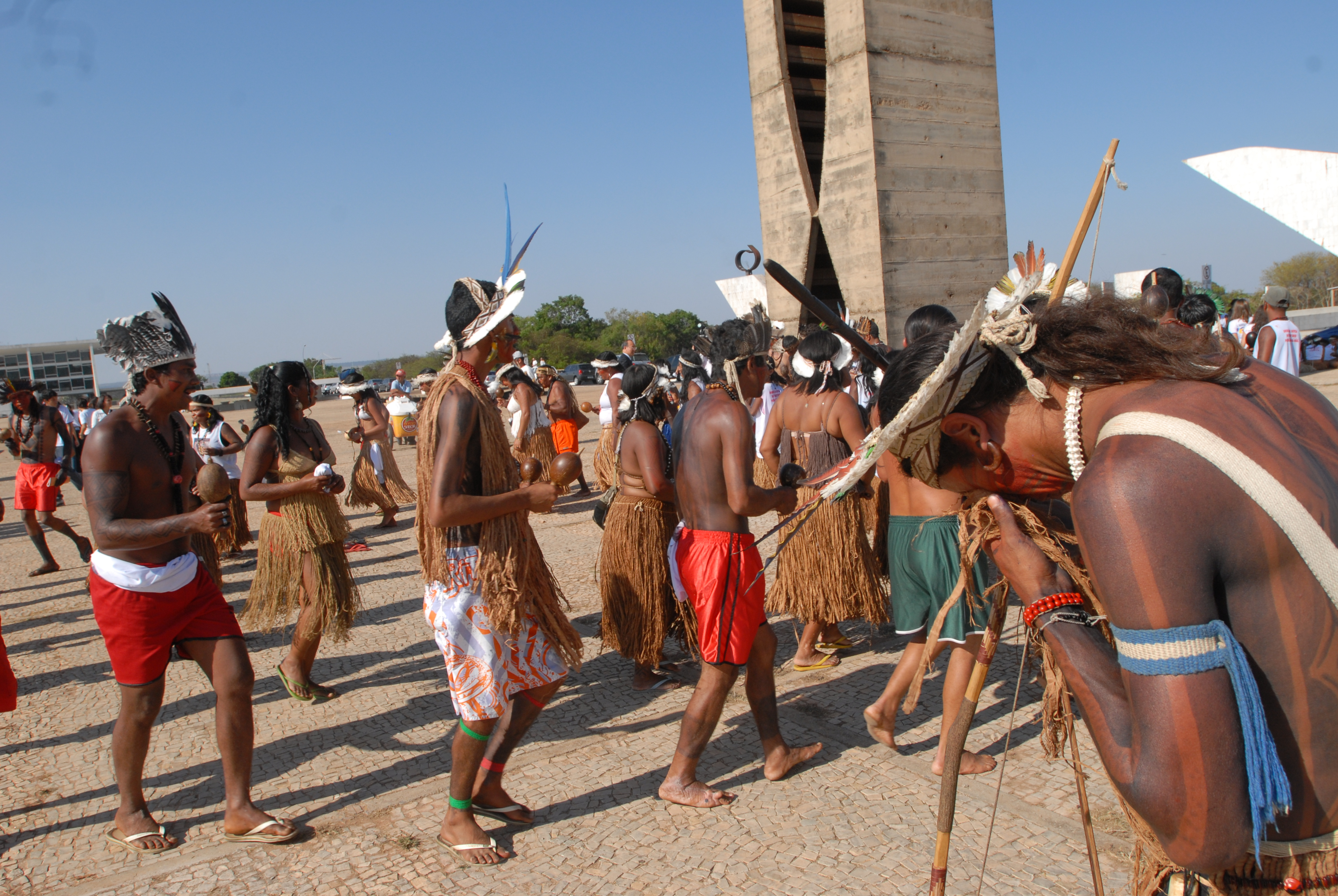 Pataxó indians in Brasilia during the judgment about Caramuru-Paraguaçu indian land